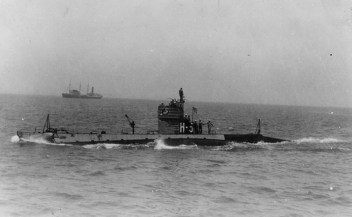 NH 53608 USS H-5 underway, circa 1922 (cropped)